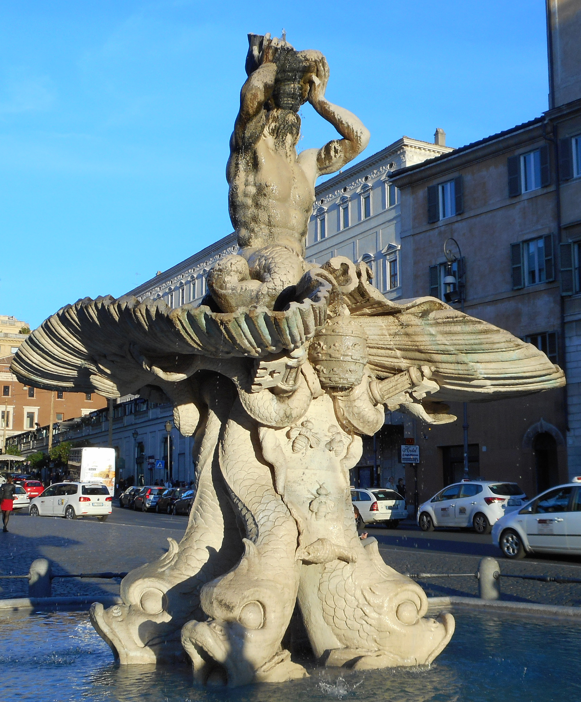 Digital image of the Fountain of the Triton in Barberini Square (Rome)